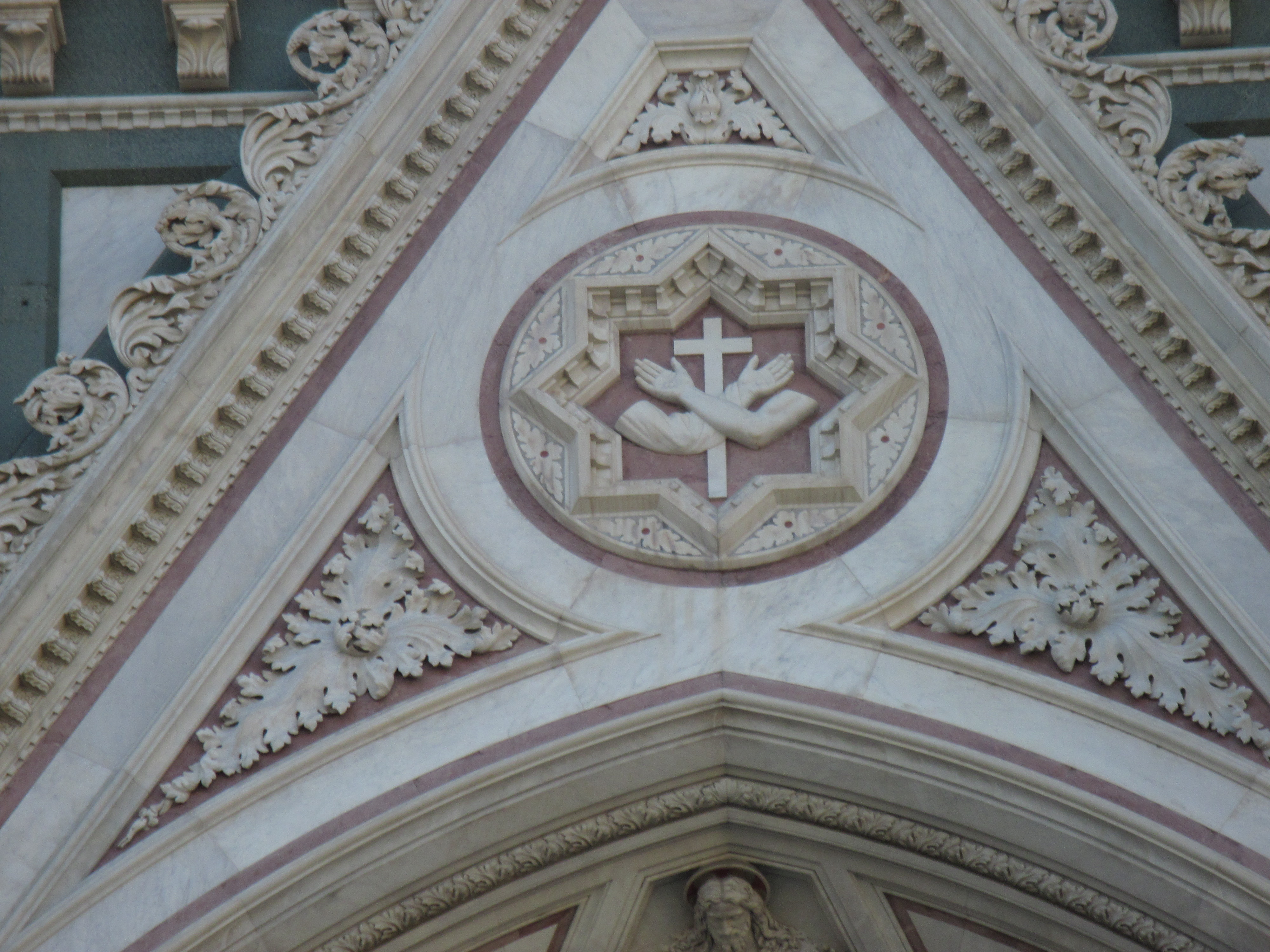 Franciscan order